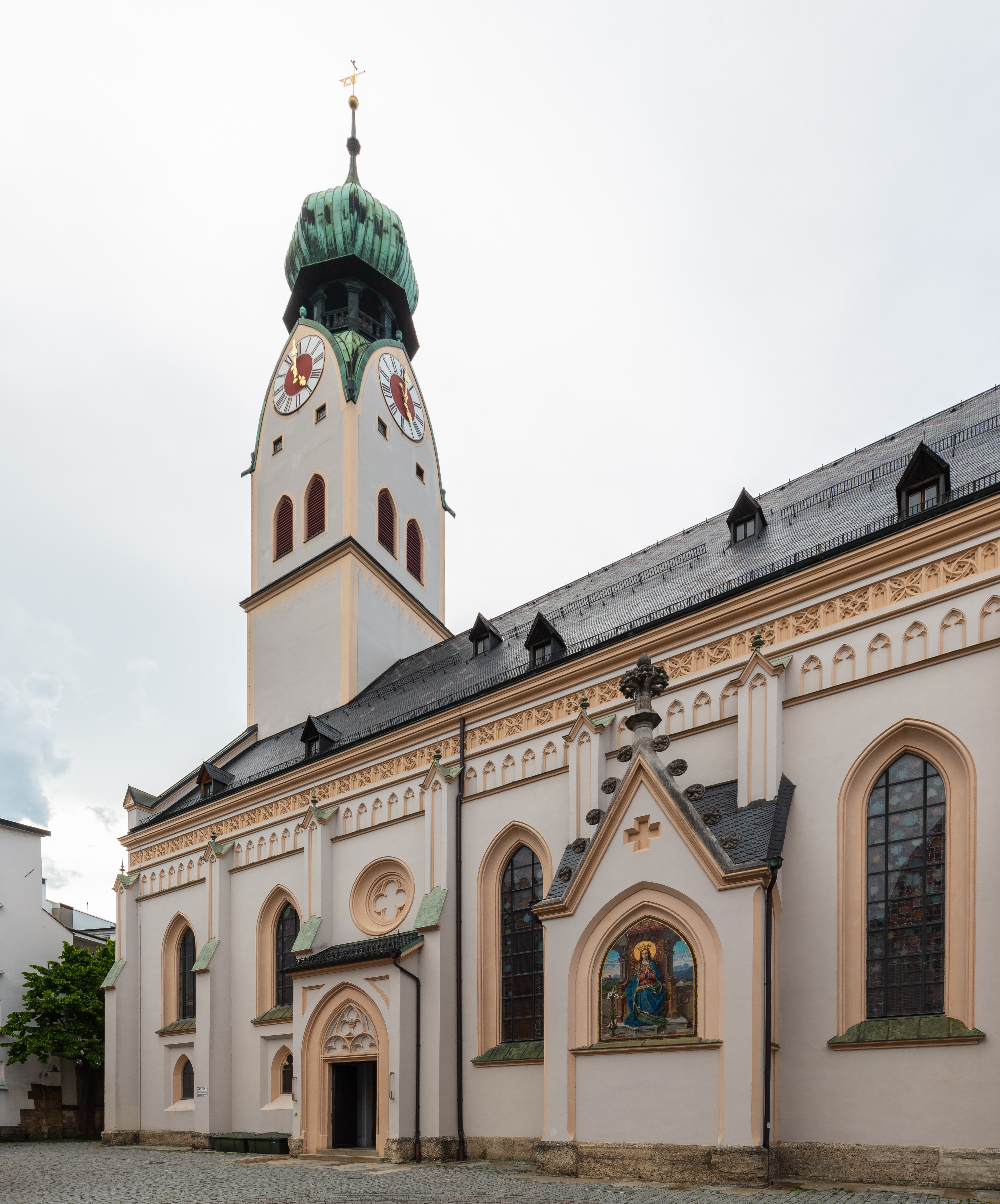 St. Nicholas Church, Rosenheim, Germany